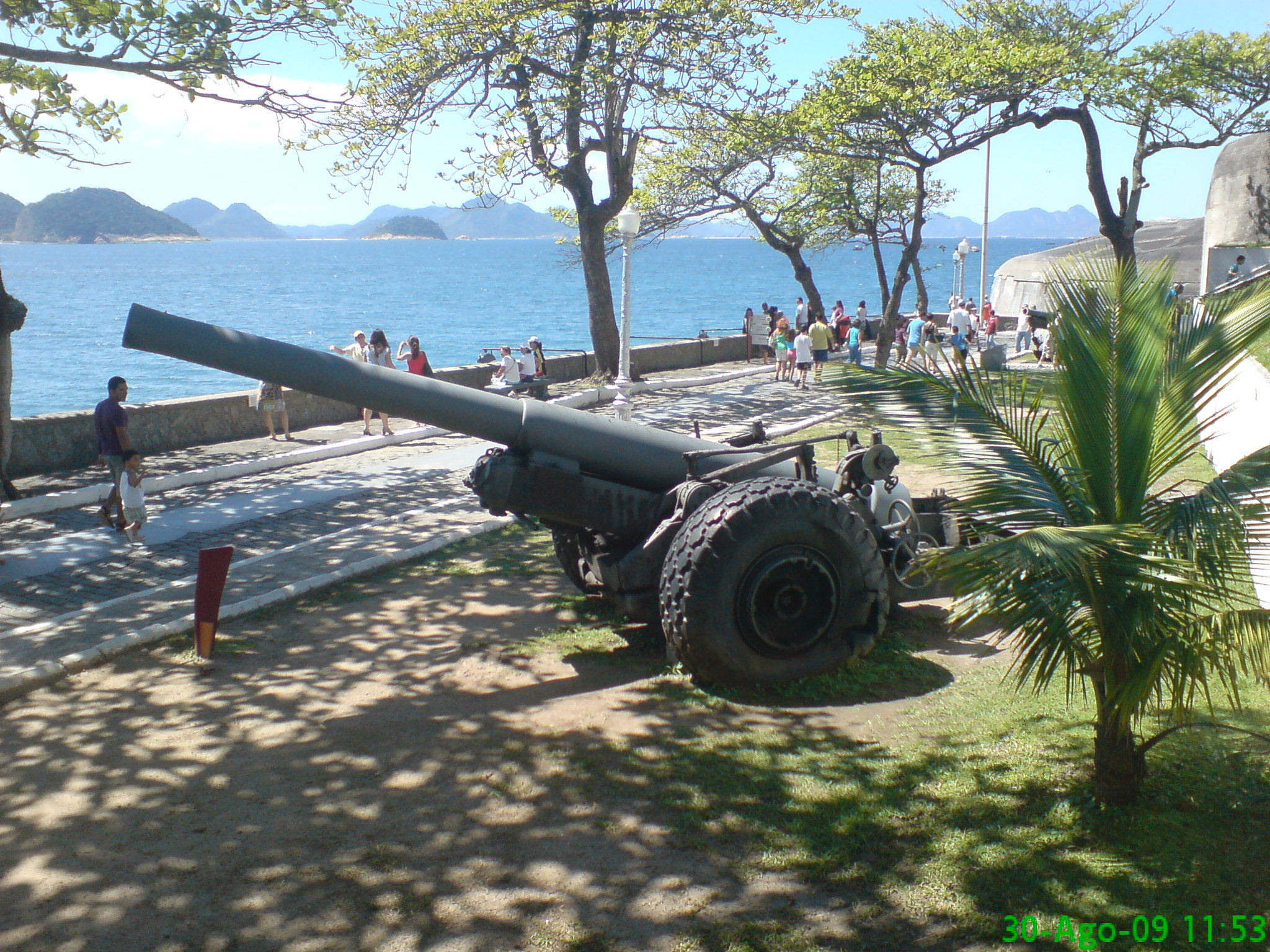 Vickers 6-inch Mark XIX gun 1917 built in 1918 and bought by the Brazilian Army in 1940 after being modernized in the USA for coastal defense is now on display at Forte de Copacabana Museum, Rio de Janeiro, Brazil. See also File:MHE12.jpg